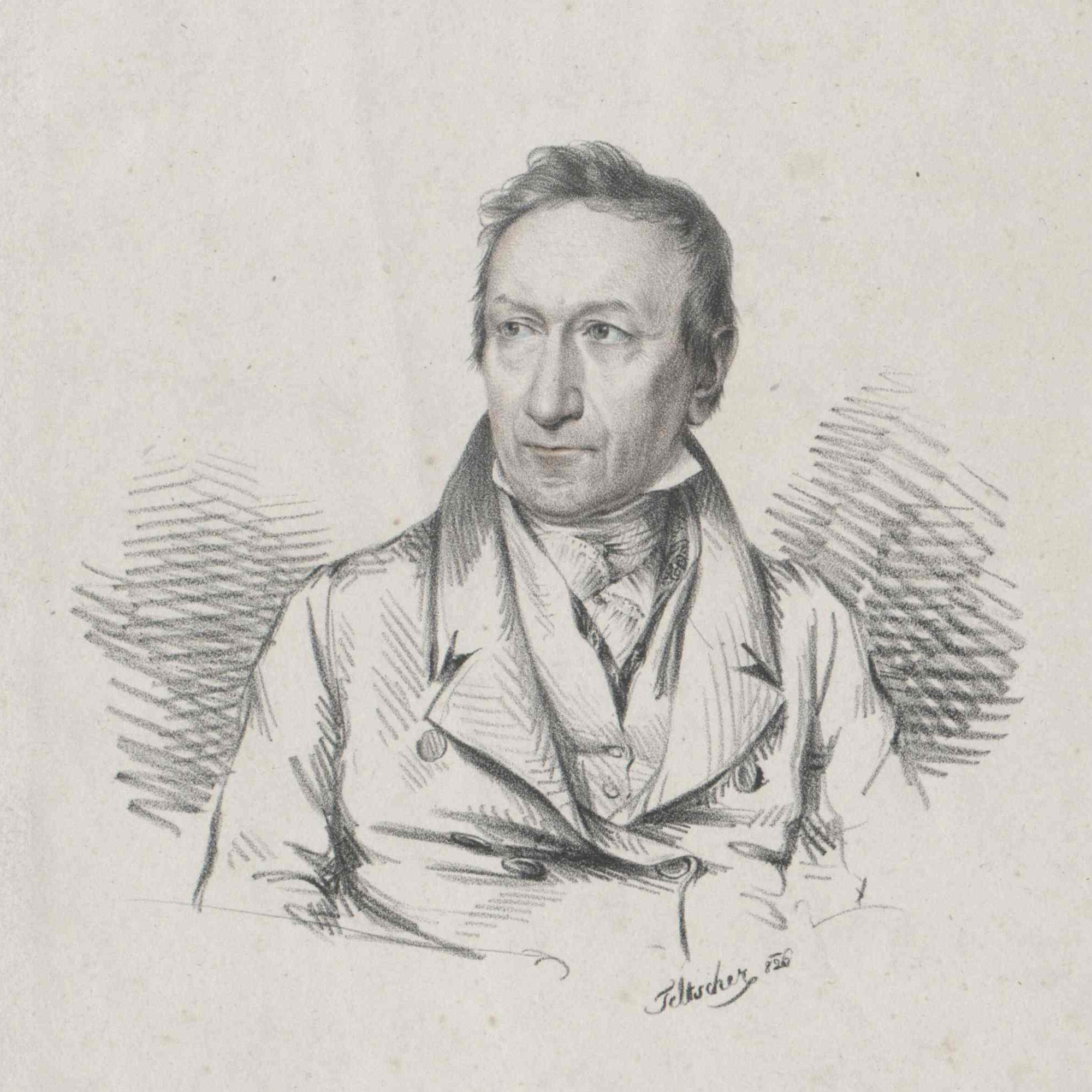 Sigmund Anton Steiner (1787-1842) Austrian Publisher and Art Dealer Lithograph by Josef Anton Teltscher, about 1825